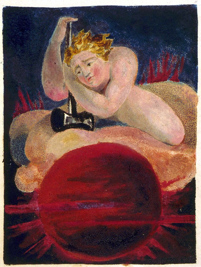 Plate from The Song of Los, copy B, in the collection of the Library of Congress. Leaf size 32.0 x 24.0 cm. This figure is almost certainly Los, in his character as the blacksmith-like creator of the temporal universe.